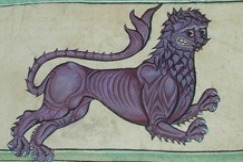 Emblem of King Alfonso IX of León (1180-1230) displayed in the Tumbo A manuscript of the 12th century, preserved in the Cathedral of Santiago de Compostela, Galicia (Spain).